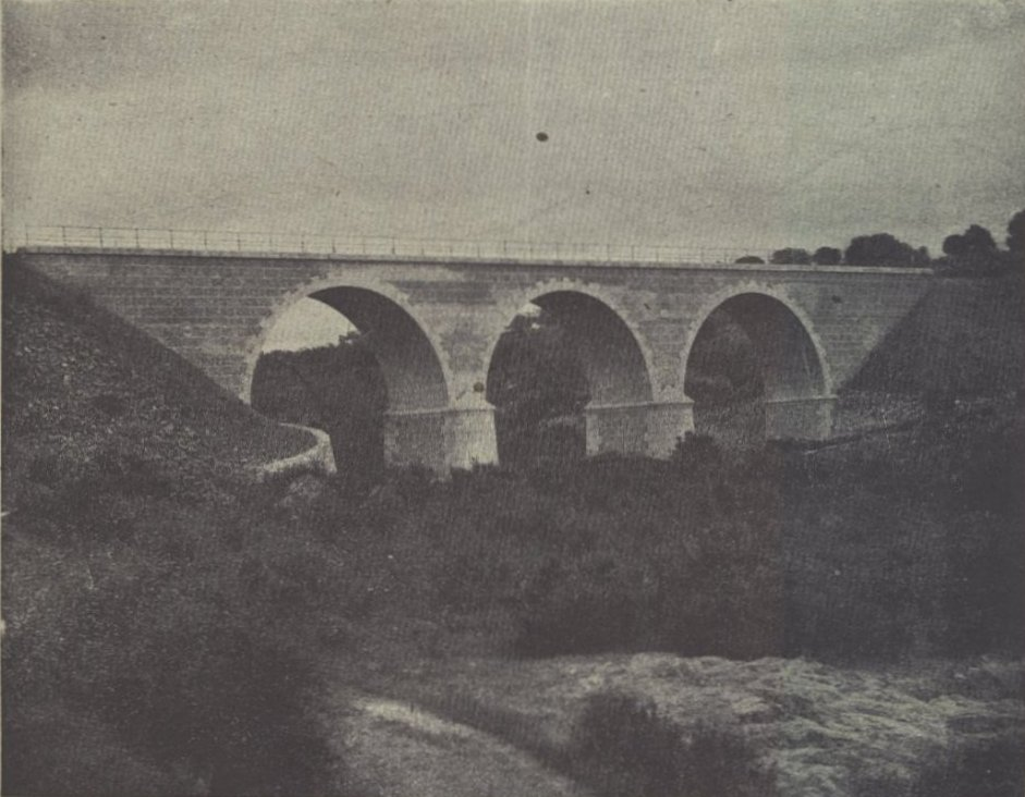 Bridge on the Serpa Branch line, an abandoned 1930s project to connect the Serpa - Brinches Railway Station, on the Moura Branch Line, to the town of Serpa, in Portugal. This bridge crosses the Enxoé River. This photograph was published on the Gazeta dos Caminhos de Ferro magazine no. 1095, of the 1st August 1933, and scanned by the Hemeroteca Municipal de Lisboa.